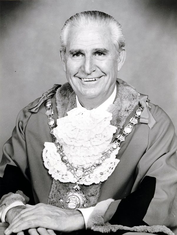 Alderman Perc Tucker, Mayor of Townsville, dressed in the Mayoral robes ca. 1976.